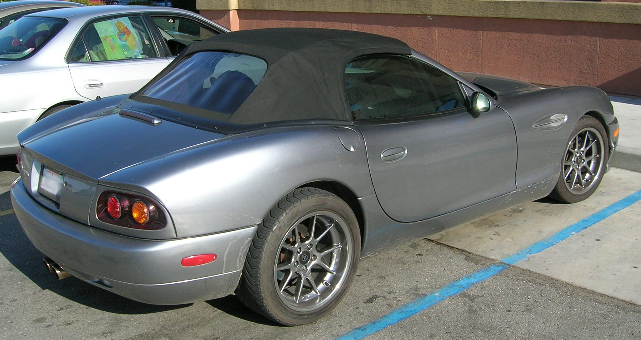 Full length picture of a Panoz Esperante roadster from the rear quarter.